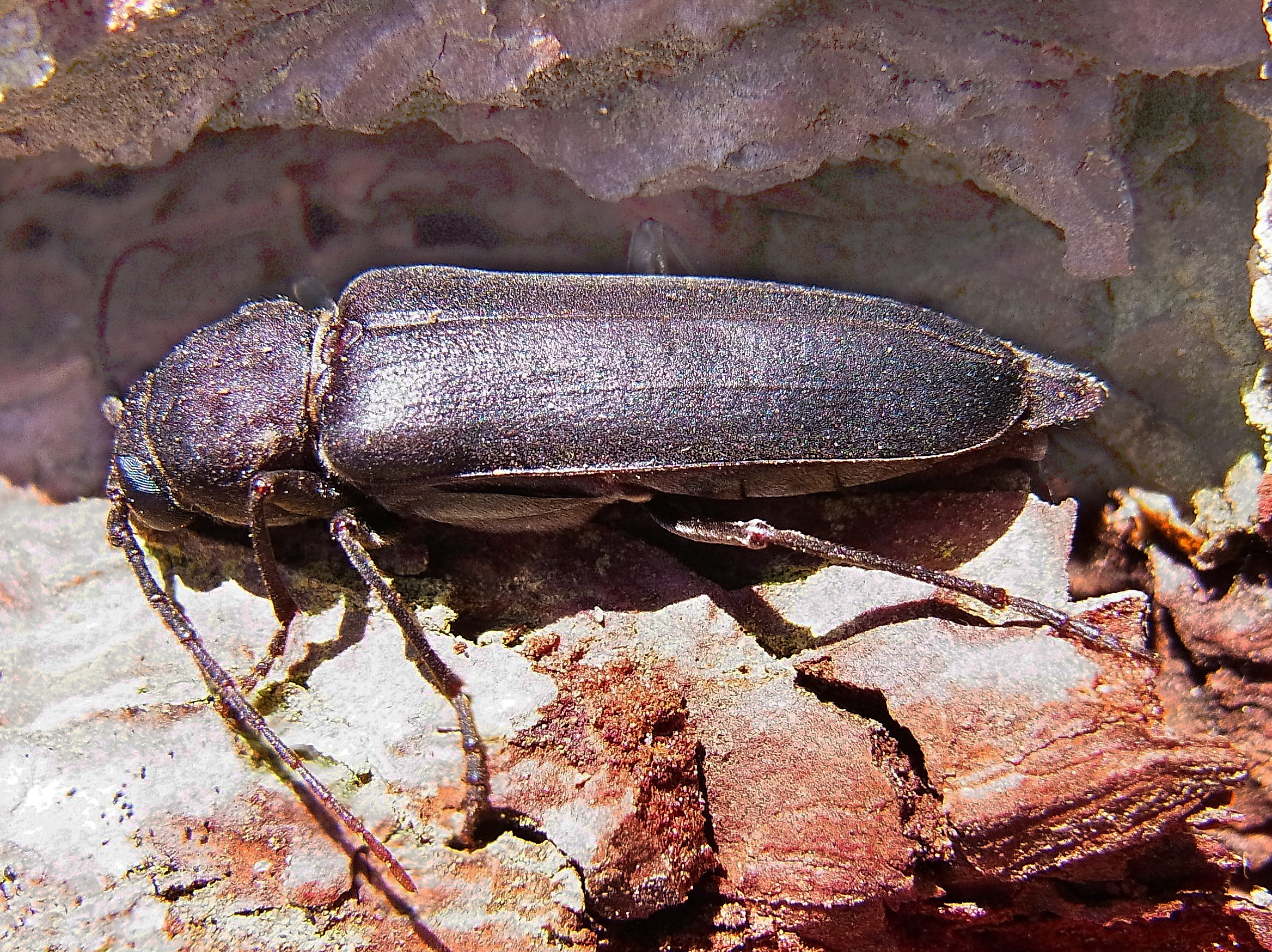 Arhopalus ferus found dead in Northern Spain near Cangas de Narcea under bark of pine at 2013-08-05